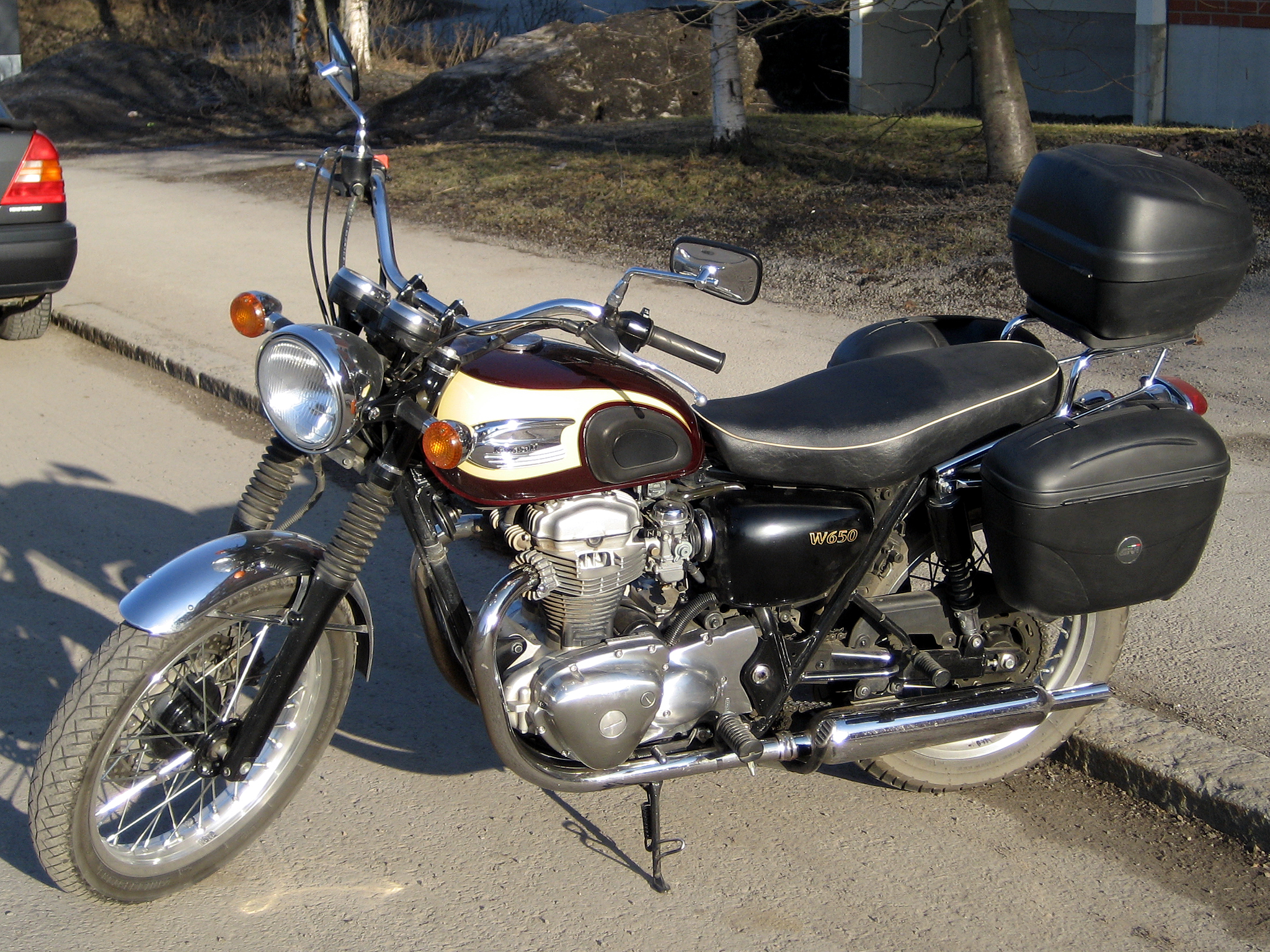 Kawasaki´s retro motorcycle W650 (1999 model) was inspired by old-time British bikes, such as Triumph Bonneville and BSA Goldstar. The bike was first introduced in Japan in 1998. The W650 was imported between 1999—2006 overseas to Europe and North America, but was discontinued, while it still remains in production in Japan until 2008.